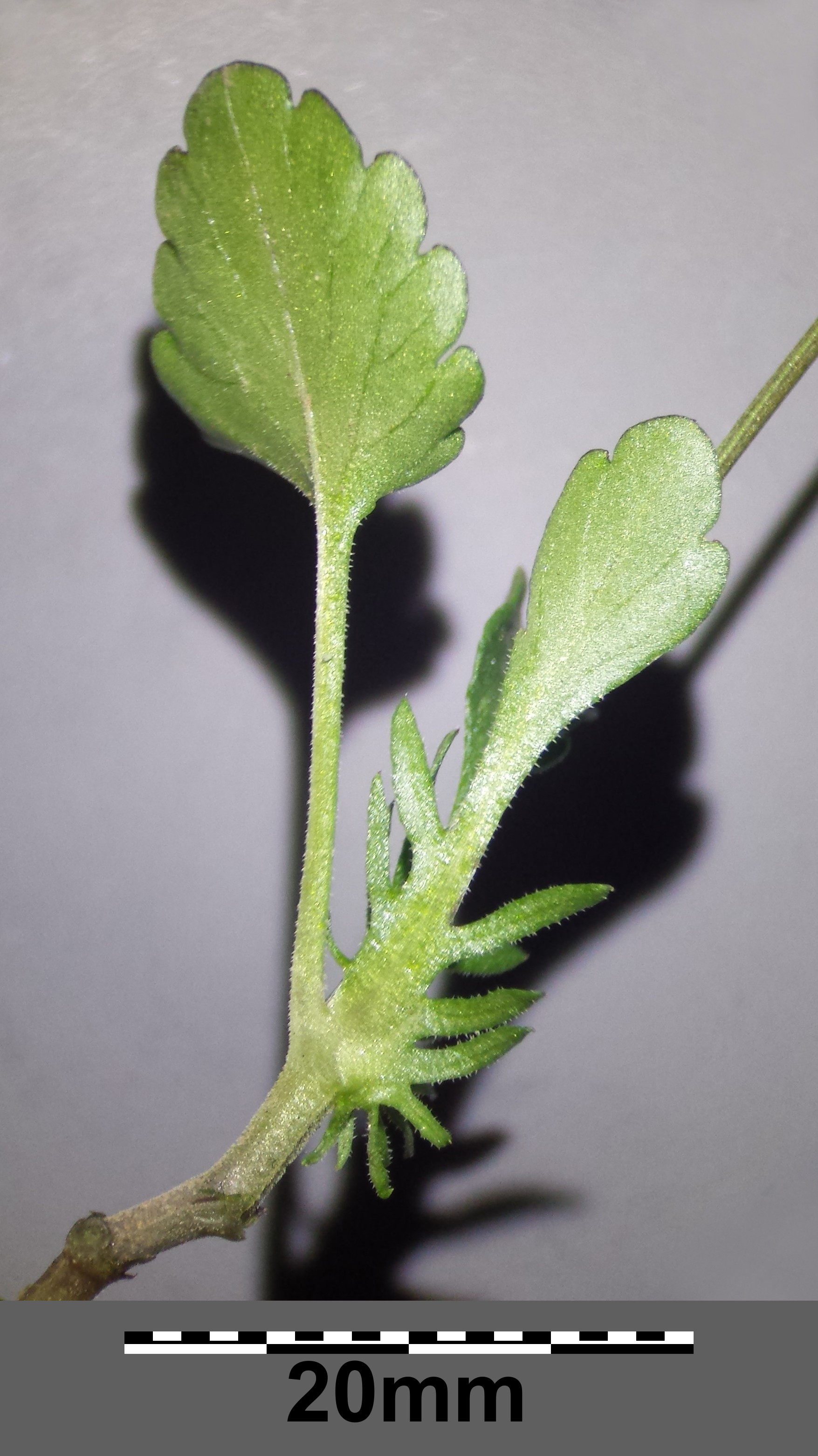 Leaf Taxonym: Viola arvensis subsp. arvensis ss Fischer et al. EfÖLS 2008 ISBN 978-3-85474-187-9 Location: Waschberg near Leitzersdorf, district Korneuburg, Lower Austria - 290 m a.s.l. Habitat: field